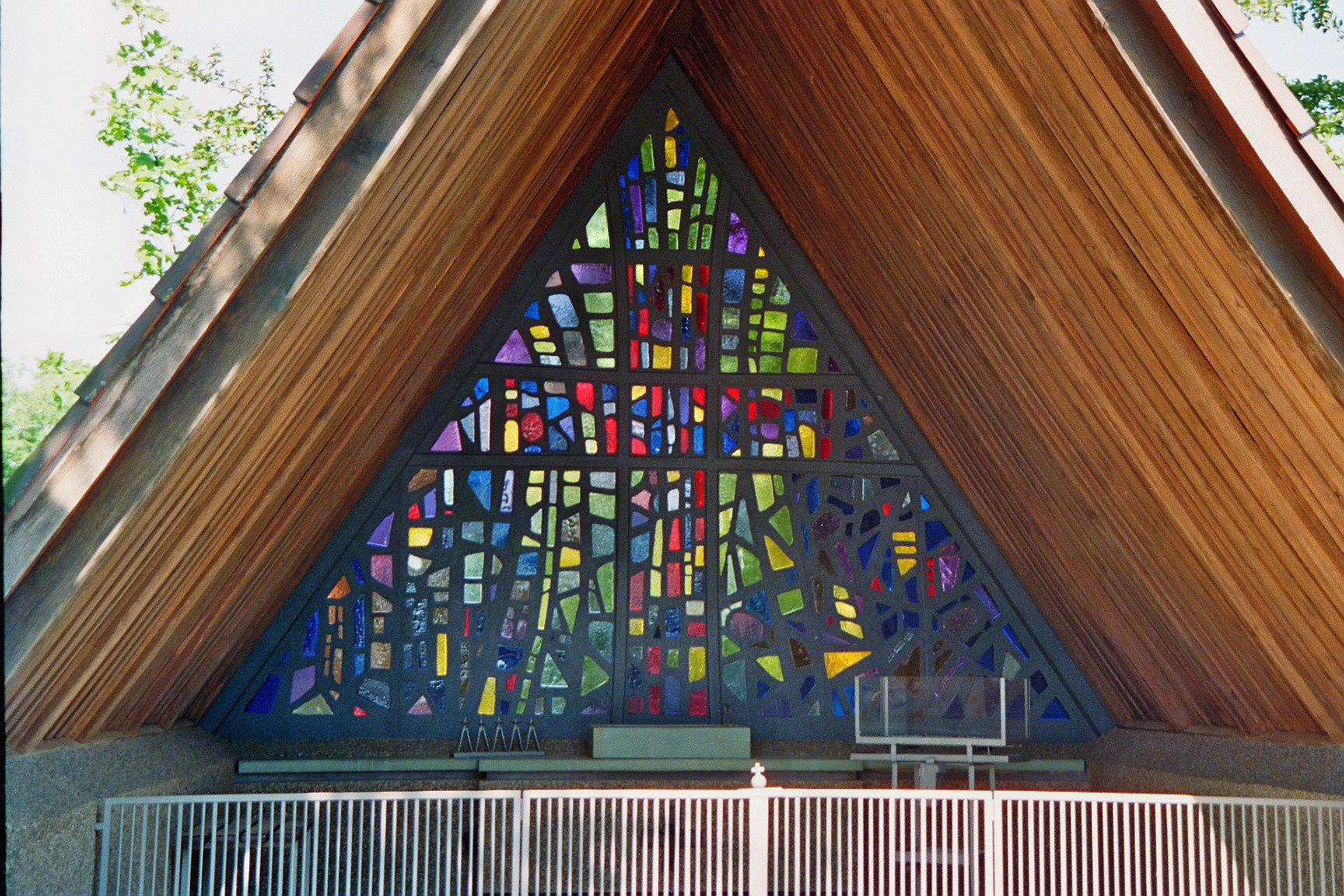 War memorial in Hörstel-Riesenbeck, Kreis Steinfurt, North Rhine-Westphalia, Germany.